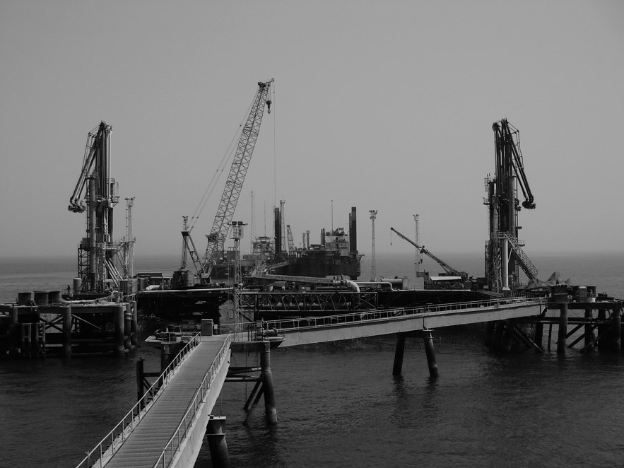 The Khawr Al Amaya Oil Terminal in the Northern Persian Gulf